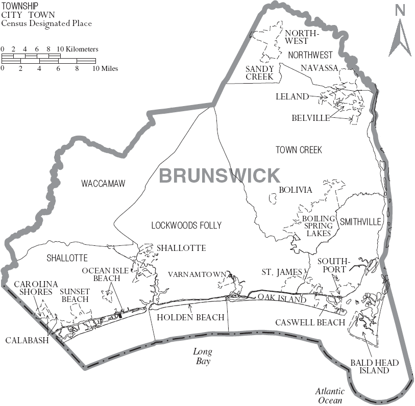 Map of Brunswick County, North Carolina, United States with township and municipal boundaries